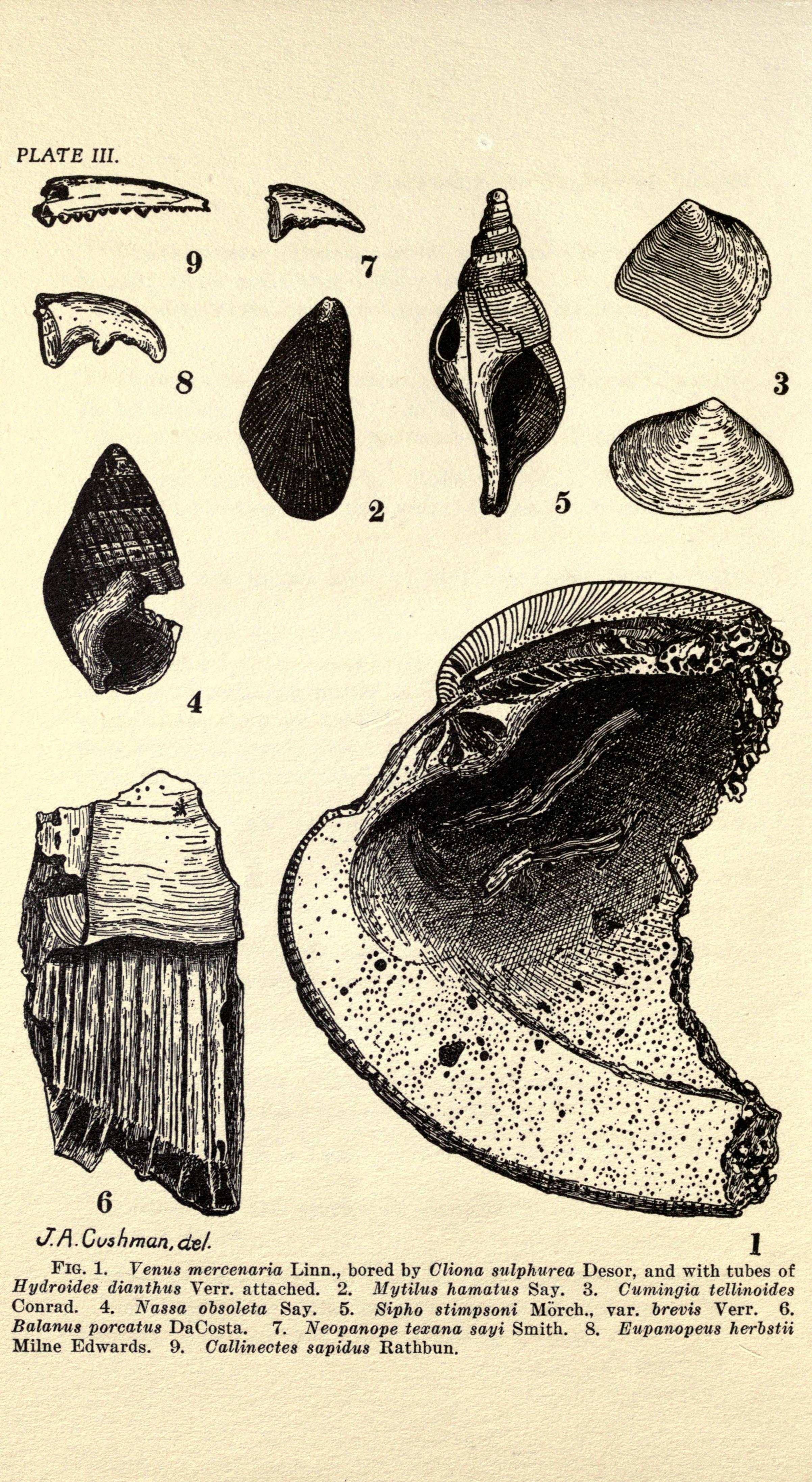 The Pleistocene deposits of Sankoty Head, Nantucket, and their fossils.